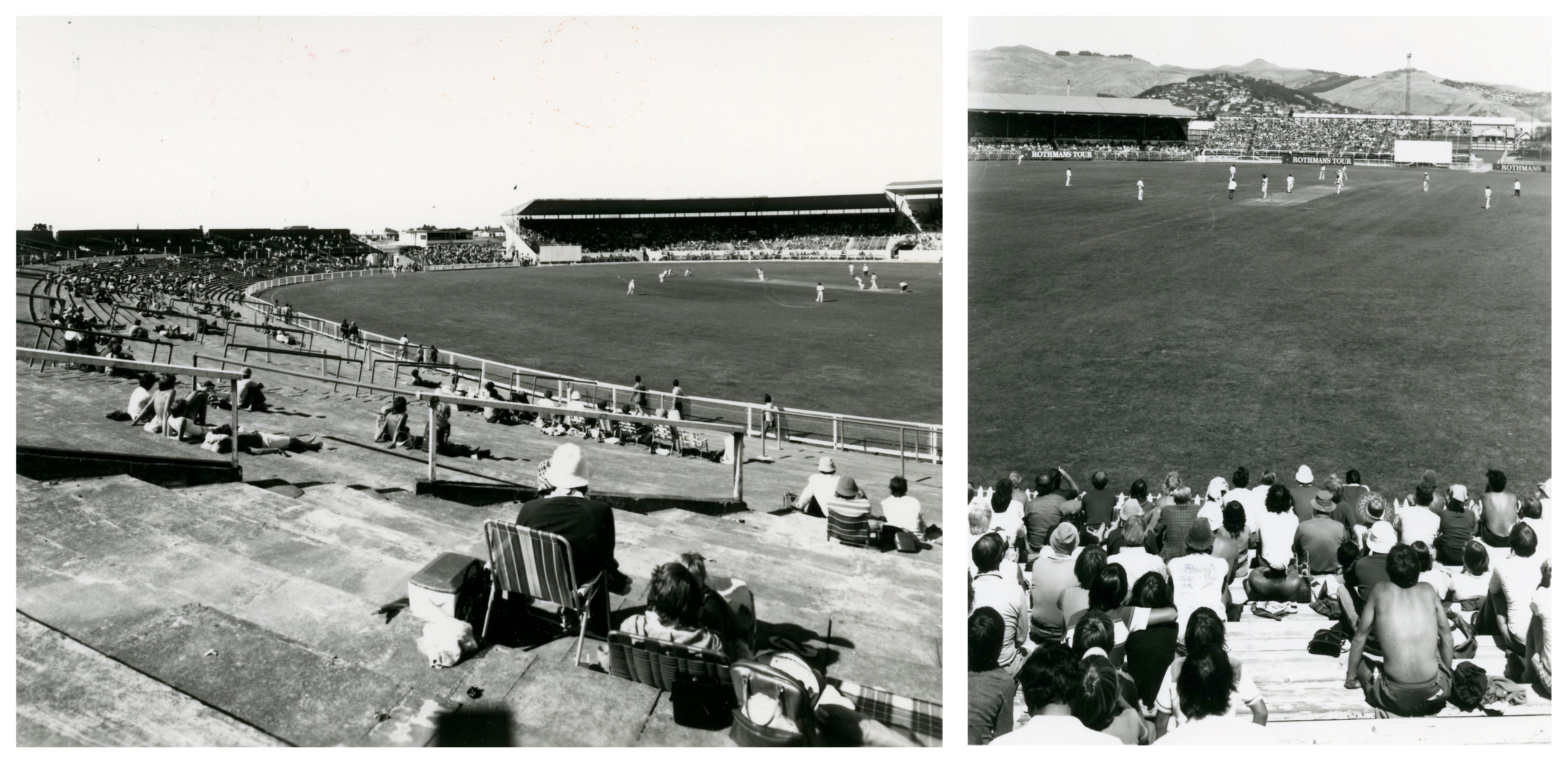 This image is of the England Cricket team playing Canterbury in Christchurch in February 1978. The image was taken by the National Publicity Studios. At the end of the Second World War, publicity became the responsibility of the Information Section of the Prime Minister's Department. The purpose of the National Publicity Studios was to provide advice to government departments and state agencies on the provision of photographic, art, and display services and in particular to assist in the production of publicity material aimed at conveying a favourable image of New Zealand. The National Publicity Studios was divided into two main sections: Photographic - comprising photographers, a laboratory, a photo library and facilities for audio-visual productions & Art - comprising graphic art, display art, display workshops and silkscreen. In 1987, the National Publicity Studios was disestablished and replaced by Communicate New Zealand. For further enquiries please Reference: AAQT 6539 W3537 box 17 CN12026 & CN12028 Throughout the Cricket World Cup 2015, Archives New Zealand will be highlighting a selection of cricket related records which are found in our holdings. For further updates on our cricket posts and other streams follow us on Twitter Material from Archives New Zealand